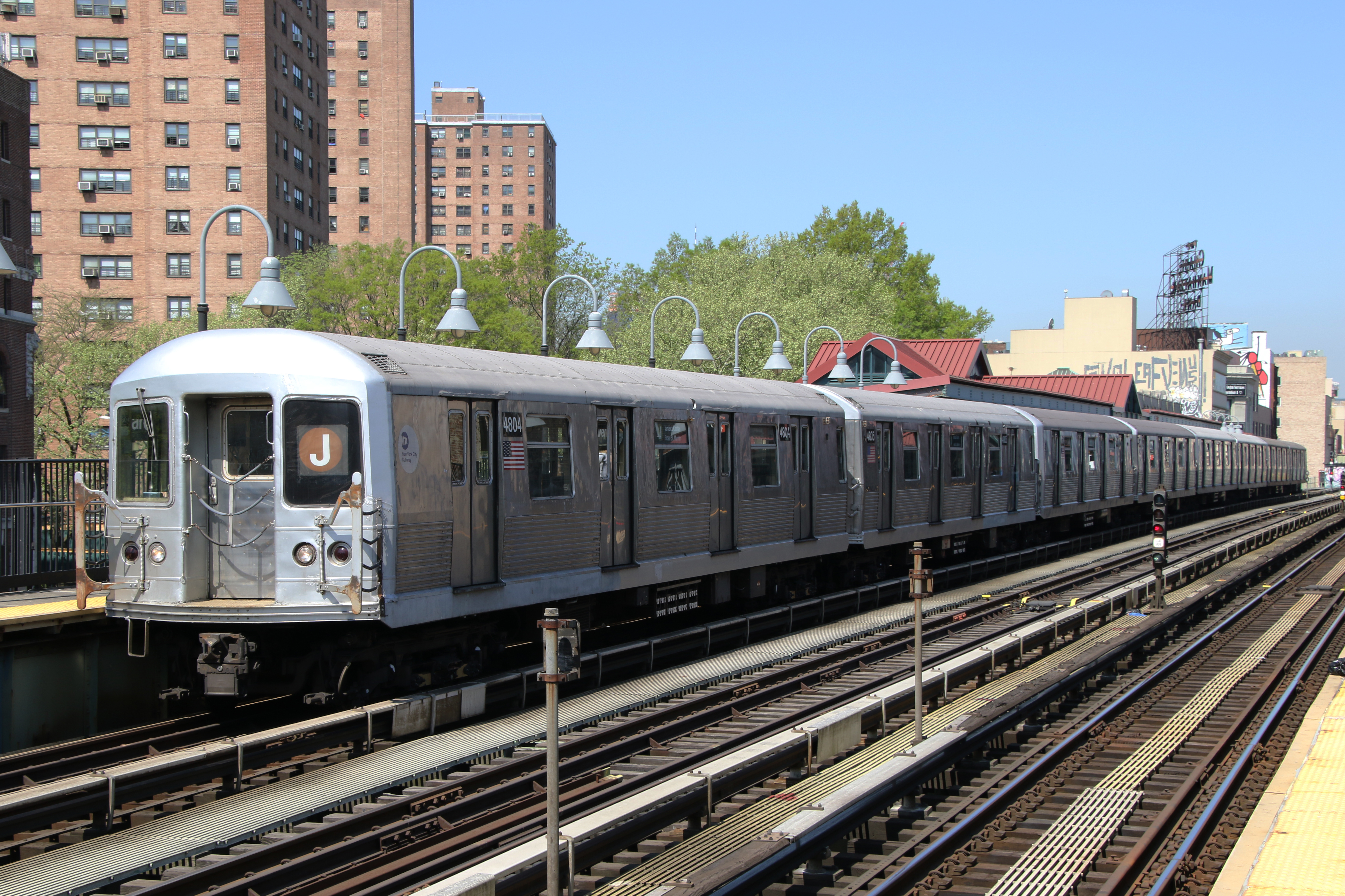 Jamaica Center-bound MTA NYC Subway J train of St. Louis Car Company R42 cars at Marcy Ave